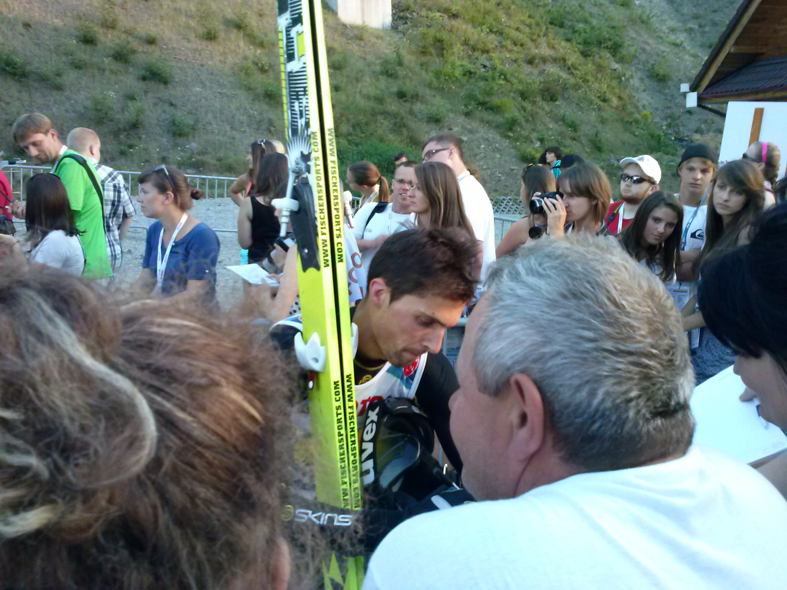 Vincent Descombes Sevoie - french ski jumper during FIS Summer Grand Prix 2013 in Wisła.